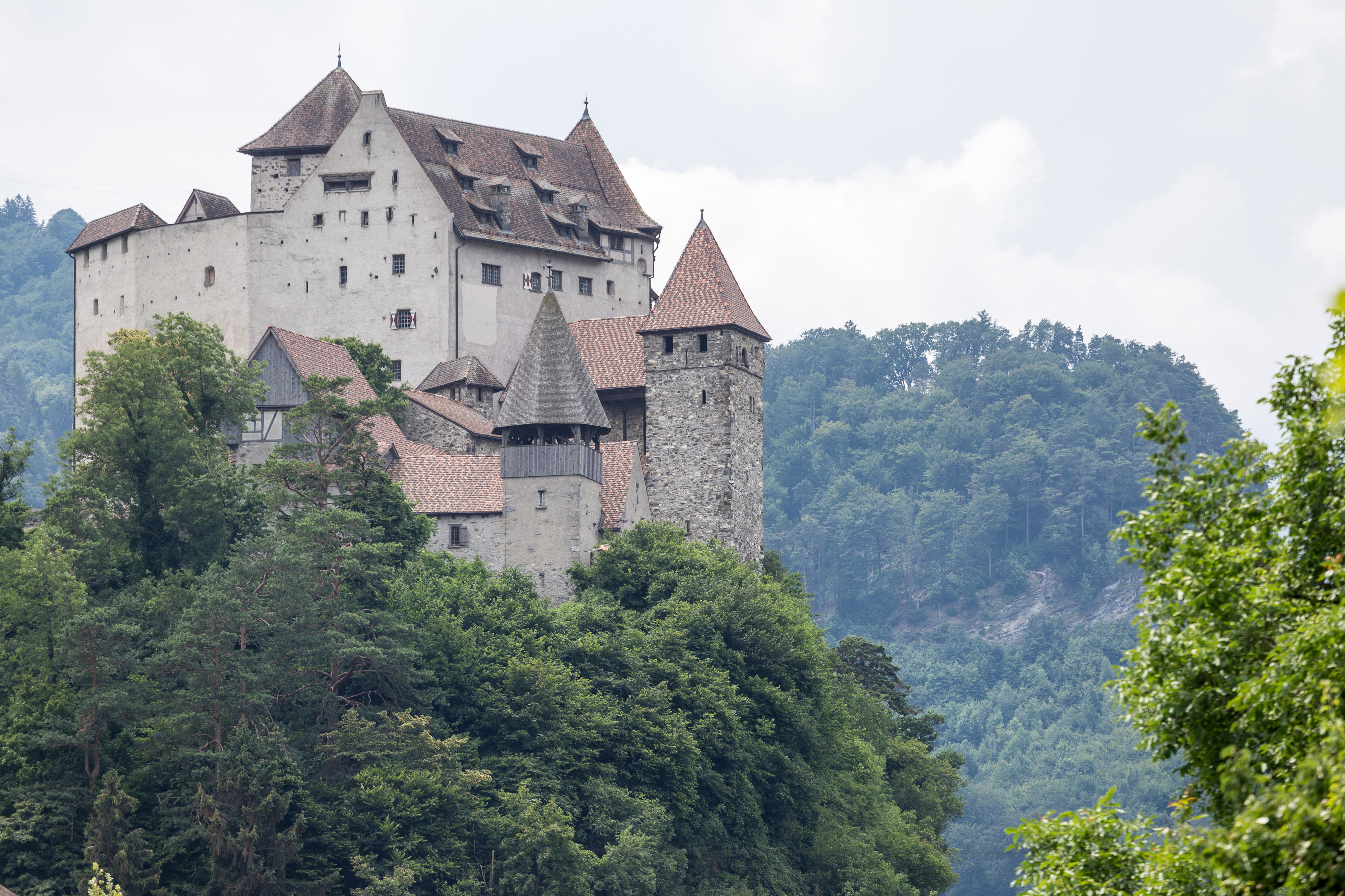 North east view of Gutenberg castle in Balzers, Liechtenstein